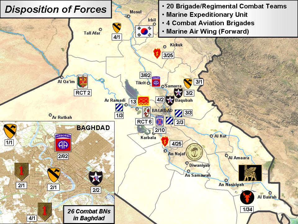 MNF-I chart showing disposition of Coalition forces prior to the country-wide operation, Phantom Thunder, in June 2007.